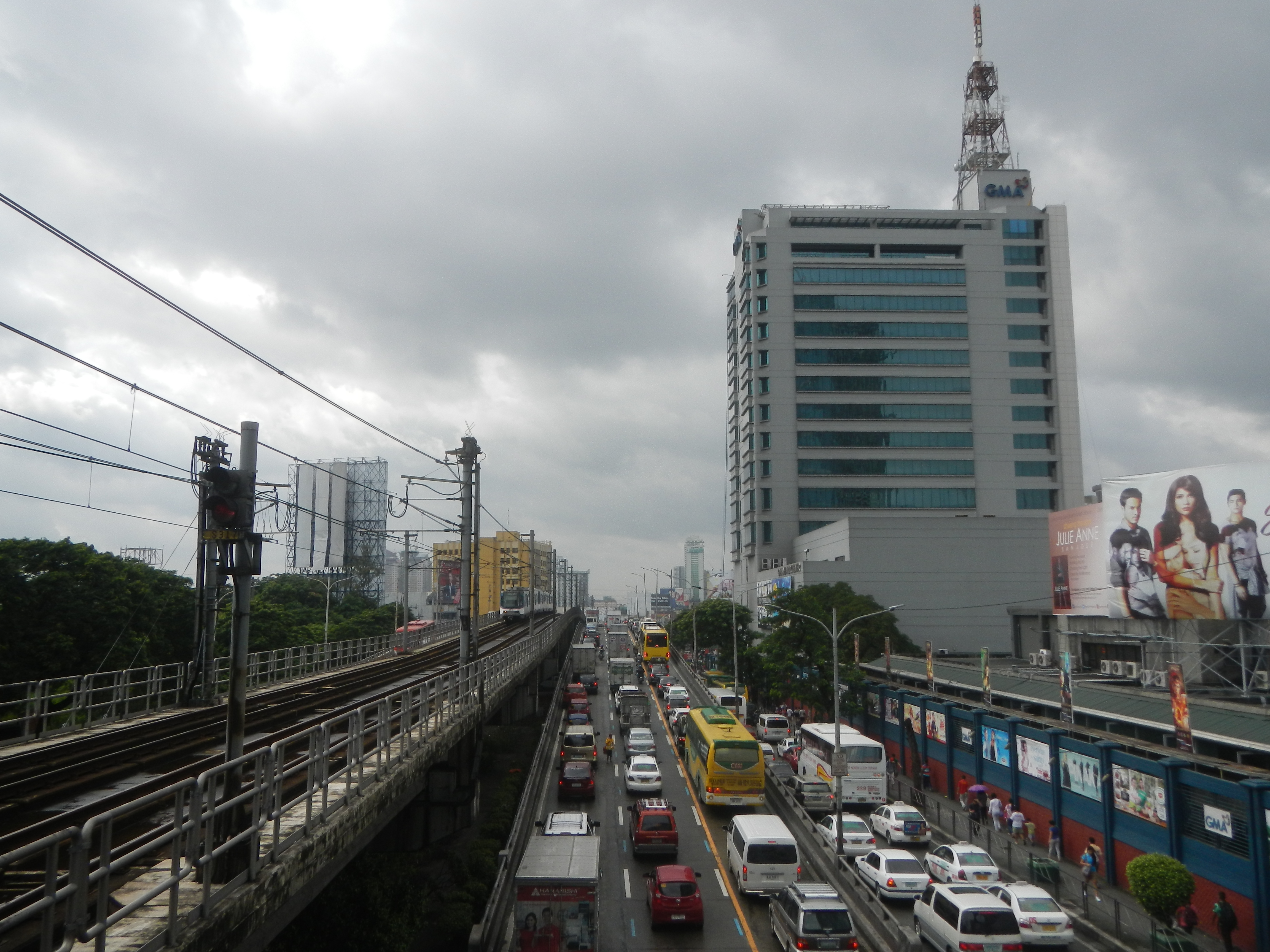 Southbound view of EDSA in Kamuning area, Quezon City near GMA Network Center.(Note: Judge Florentino Floro, the owner, to repeat, Donor Florentino Floro of all these photos hereby donate gratuitously, freely and unconditionally all these photos to and for Wikimedia Commons, exclusively, for public use of the public domain, and again without any condition whatsoever).